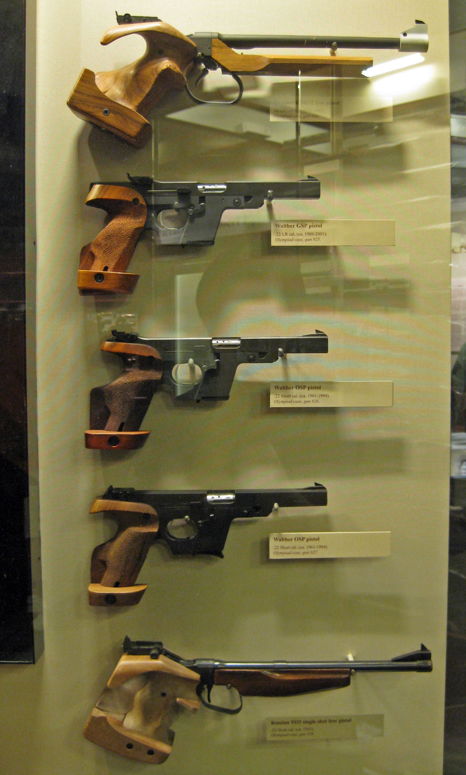 A selection of .22 target pistols, including (top to bottom): .22LR Hammerli M152 free pistol; .22LR Walther GSP pistol; two .22 Short Walther OSP Semi Automatic Target Pistols, and a .22 Short Russian TO3 free pistol.